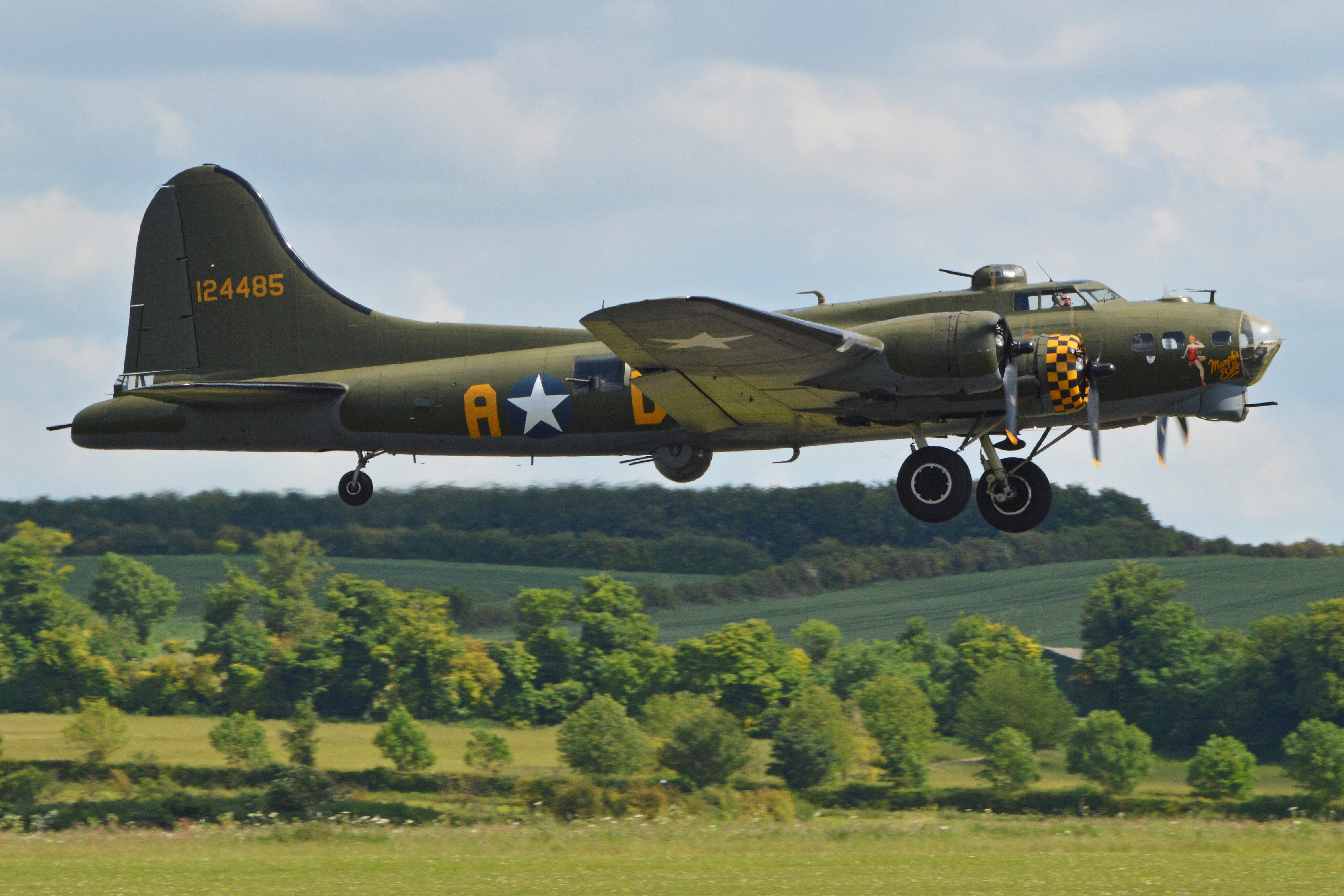 The only airworthy B17 outside of the USA, 'Sally B' has been based at Duxford since 1975. Since 1989 she has been painted to represent the famous B-17F 'Memphis Belle' which was based at nearby Bassingbourn. Although she still retains this scheme, she has now had her chin turret re-installed, which returns her to 'G' status. c/n 8693(-VE). She is seen getting airborne at her Duxford base to display at the 2014 D-Day Anniversary Airshow. Imperial War Museum.